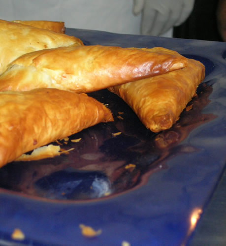 Pastry made with phyllo